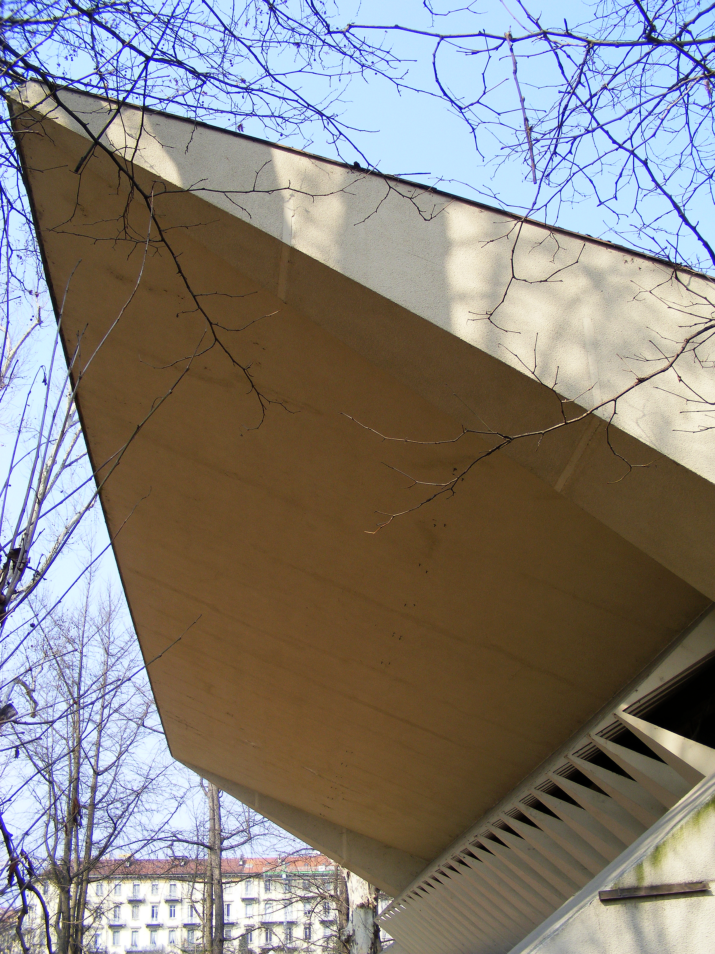 The reptilarium of the former Turin's zoo, designed by Enzo Venturelli (1957-1960)